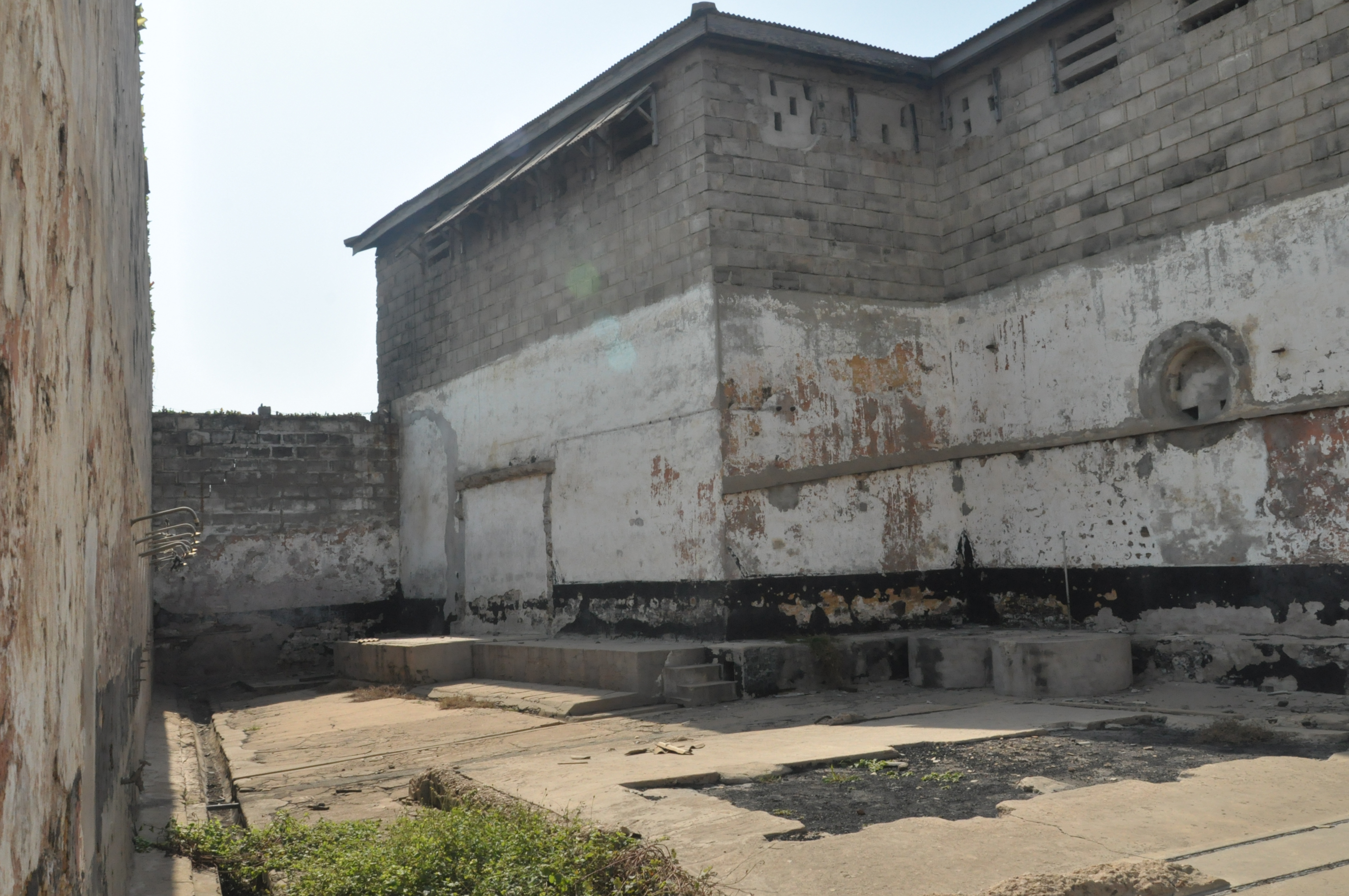 Once a slave prison and then a state prison , this area is where the prison showered and were also hanged